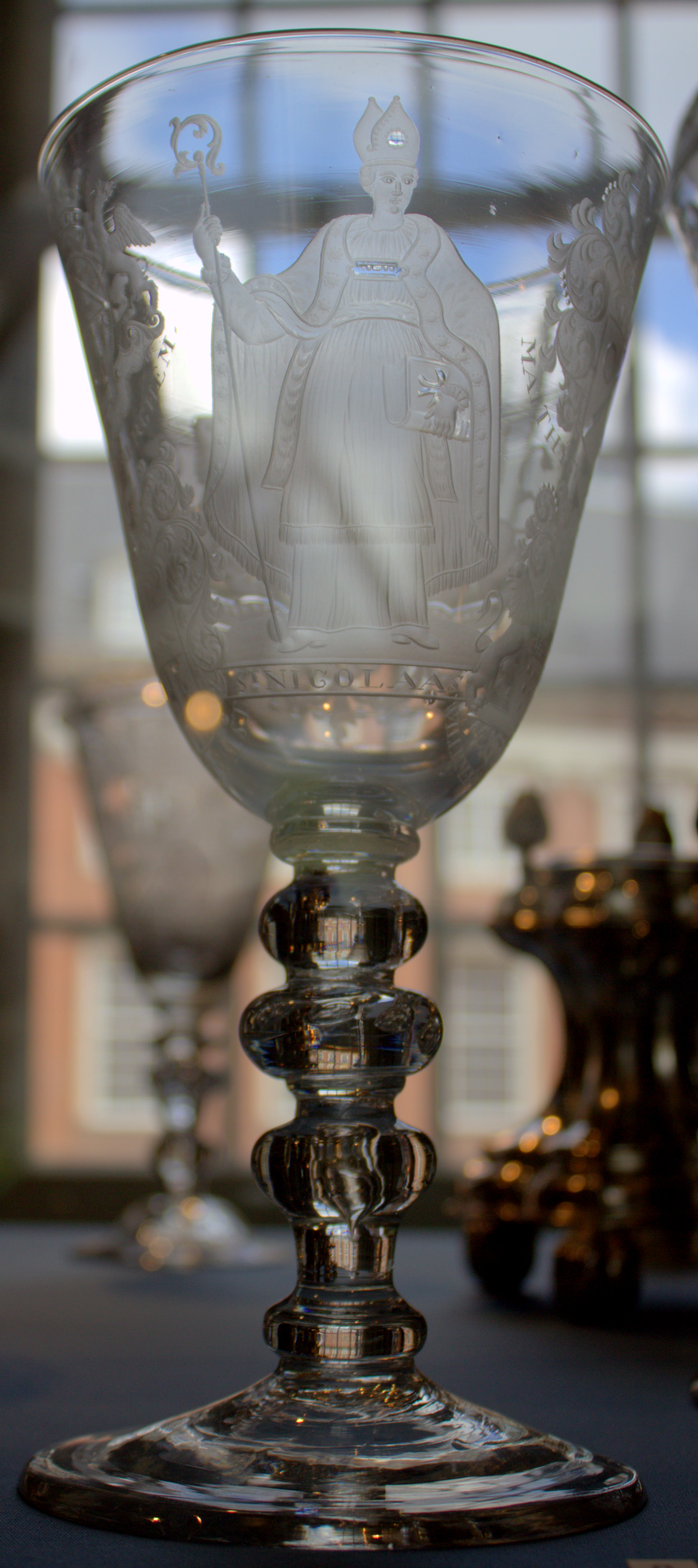 Goblet commemorating the Leprozenhuis, a charitable institution for lepers. Wheel-engraved by Jacob Sang with the arms of Amsterdam and St. Nicholas, patron saint of the city.